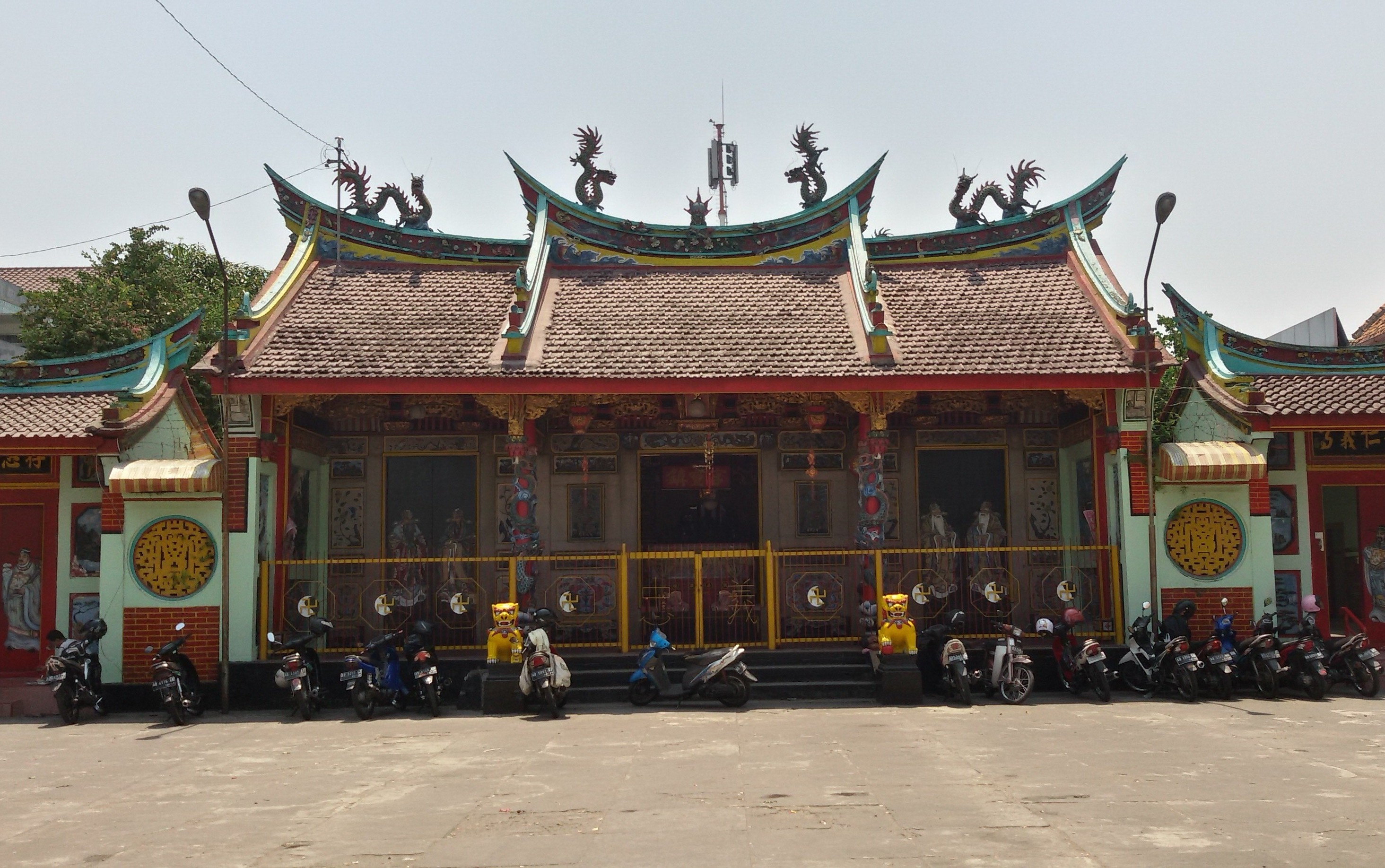 The front side of Tjen Ling Kiong temple, Yogyakarta, Indonesia